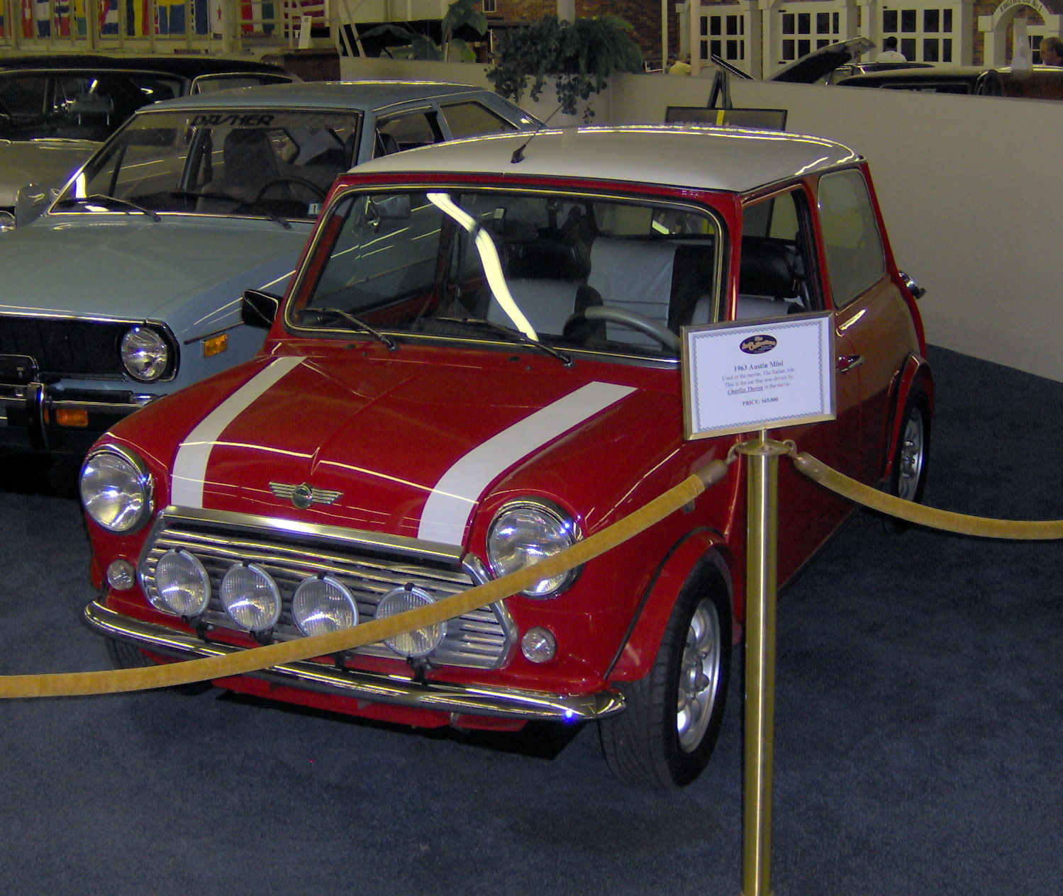 1999 Austin Mini Cooper from The Italian Job: L.A. Heist